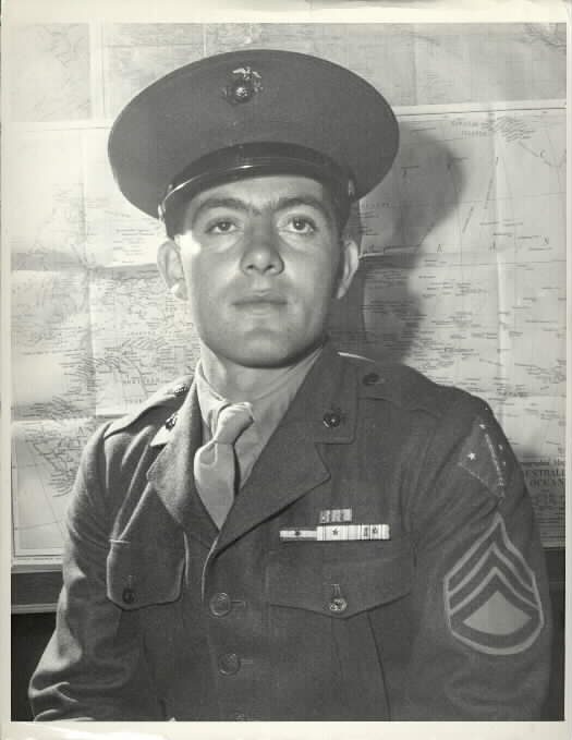 John Basilone when a SSGT, USMC, Medal of Honor, Navy Cross, and Purple Heart recipient for his bravery in WW II.